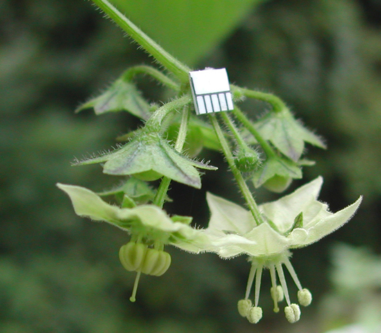 Inflorescence of Jaltomata procumbens, showing the protogyny of the species: Left flower is pistillate (anthers undehsiced), right flower is hermaphroditic. Units are mm. Accession 401 from Chiapas, Mexico grown for study in Connecticut.